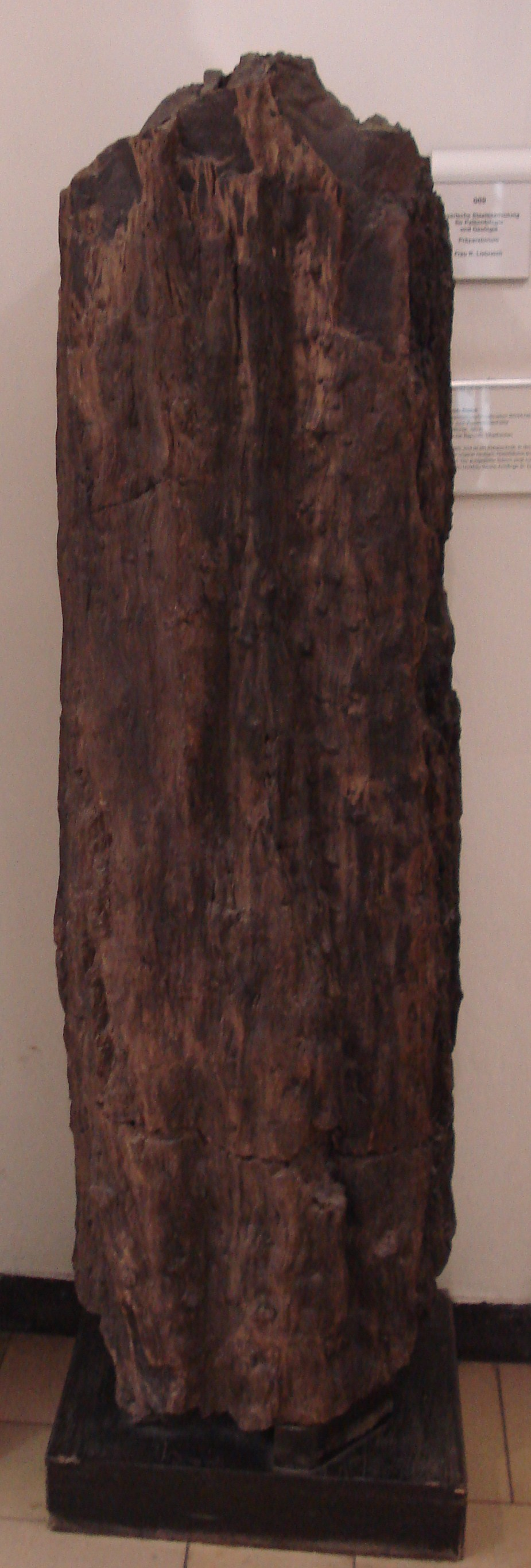 fossil of protocupressinoxylon